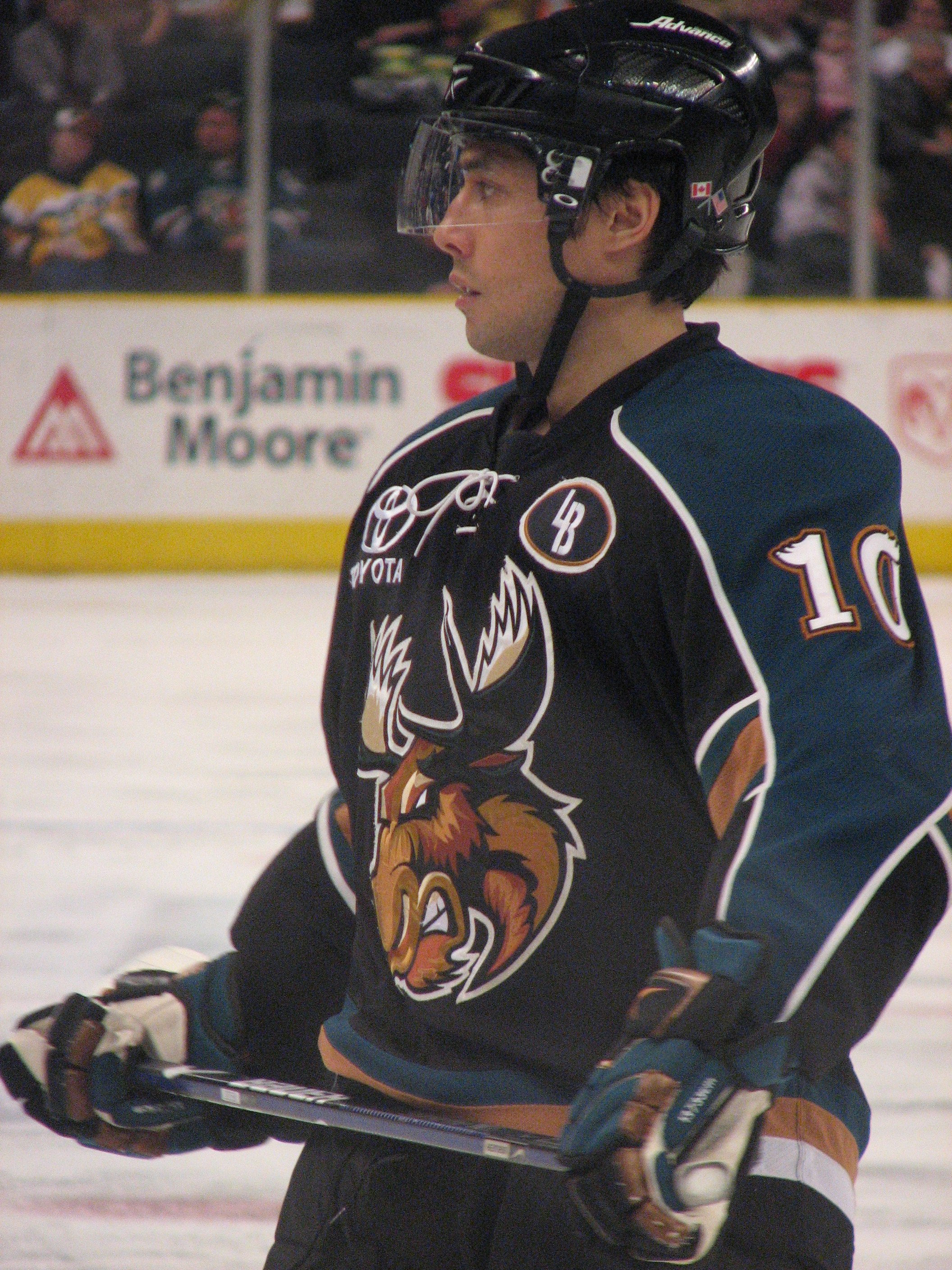 Manitoba Moose forward Jason Krog in a game against the Providence Bruins in 2009.